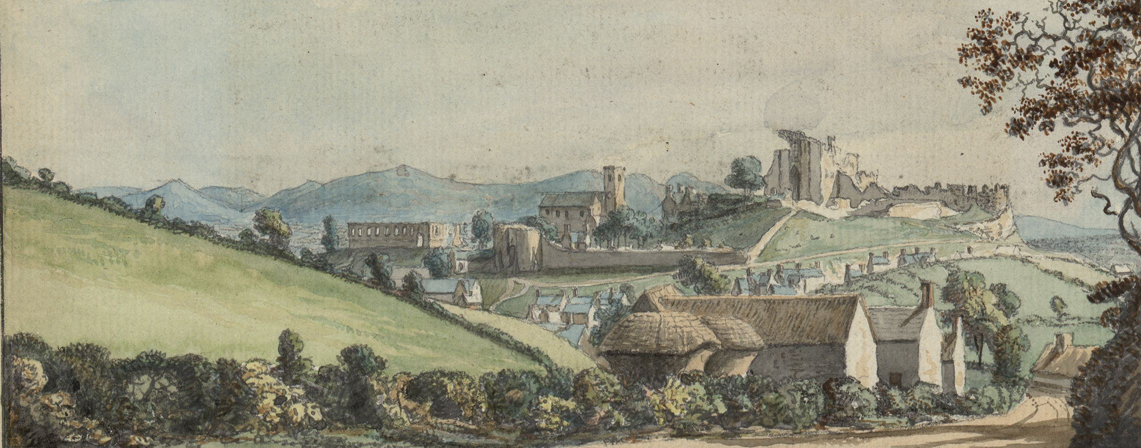 An image from a set of 8 extra-illustrated volumes of A tour in Wales by Thomas Pennant (1726-1798) that chronicle the three journeys he made through Wales between 1773 and 1776. These volumes are unique because they were compiled for Pennant's own library at Downing. This edition was produced in 1781. The volumes include a number of original drawings by Moses Griffiths, Ingleby and other well known artists of the period. Thomas Pennant (1726-1798)